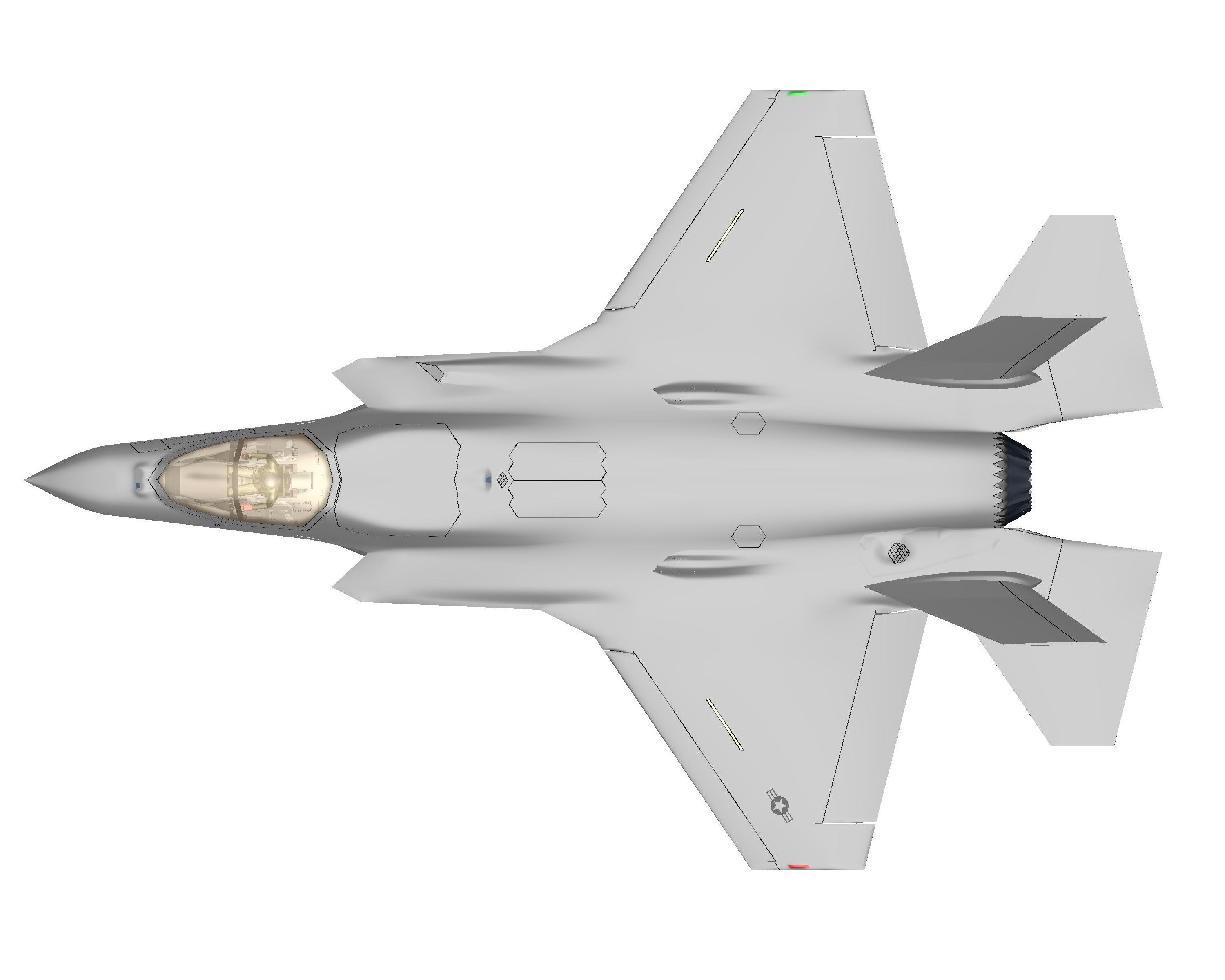 This is a image of F-35 B Joint Strike Fighter